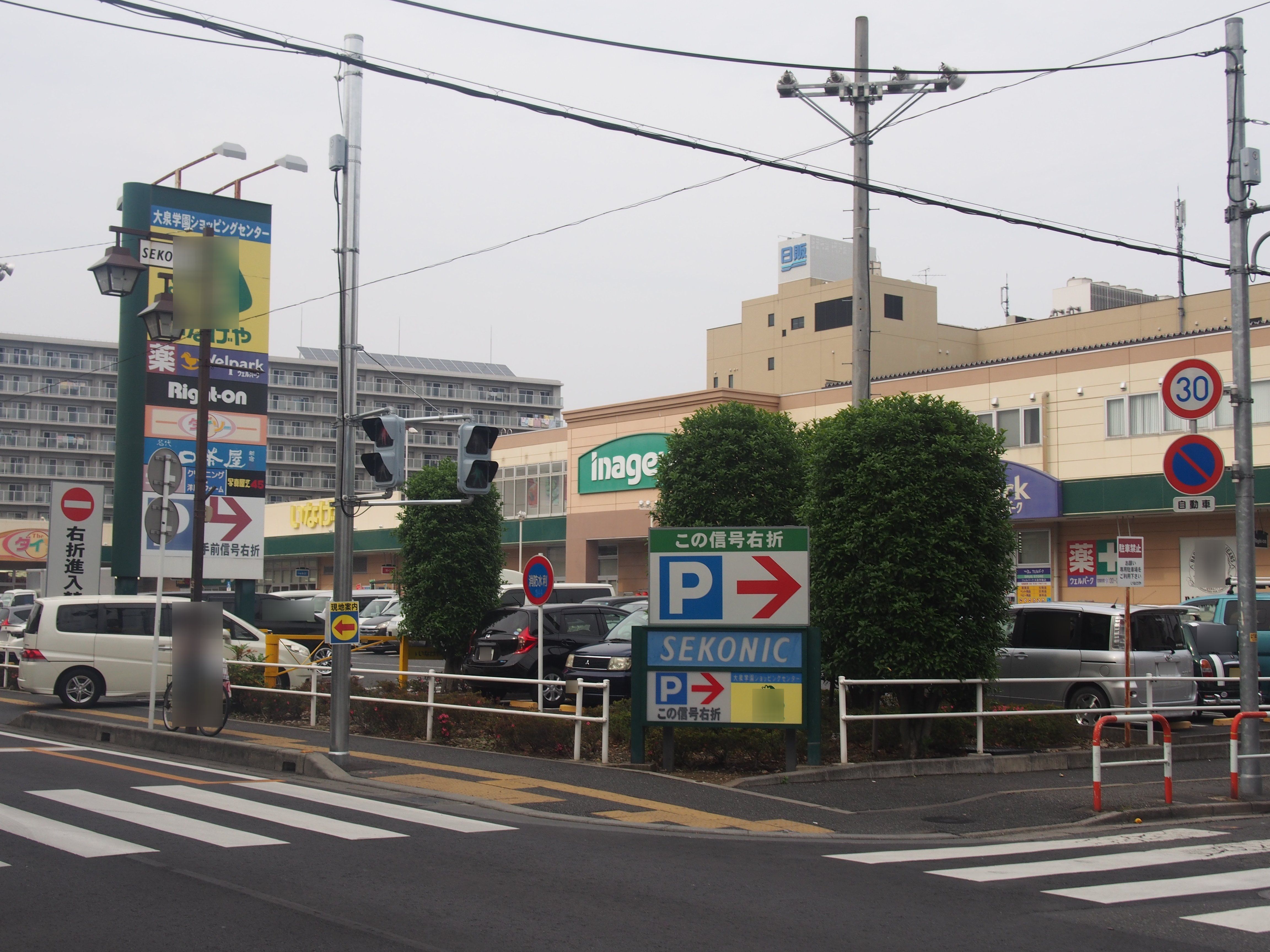 A photo of Oizumi Gakuen Shopping Center(former "Sekonic" Tokyo fatory) Sakae,Niiza city,Saitama pref,Japan.